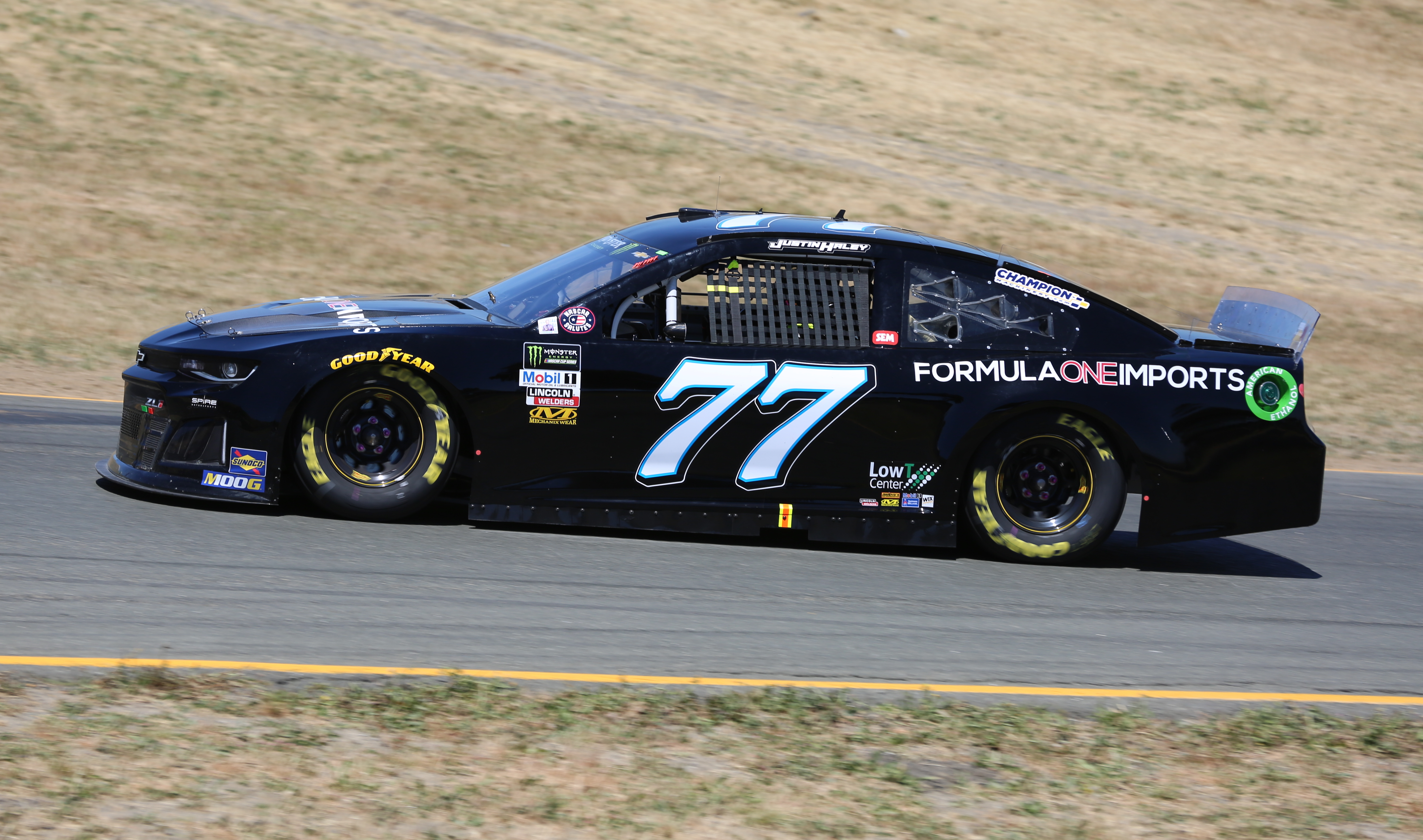 Justin Haley's No. 77 Formula One Imports Chevrolet at Sonoma Raceway in 2019